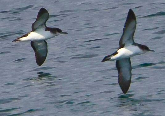 Two Manx Shearwaters, Puffinus puffinus, flying with their wings apparently shearing the water. Iceland.